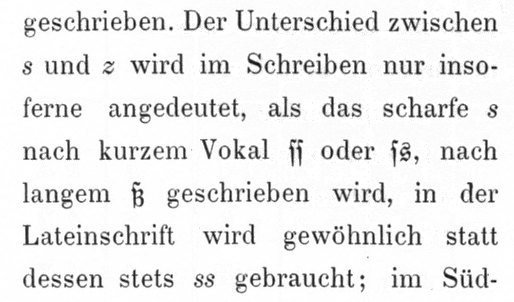 Austrian text about ss and ß from 1880